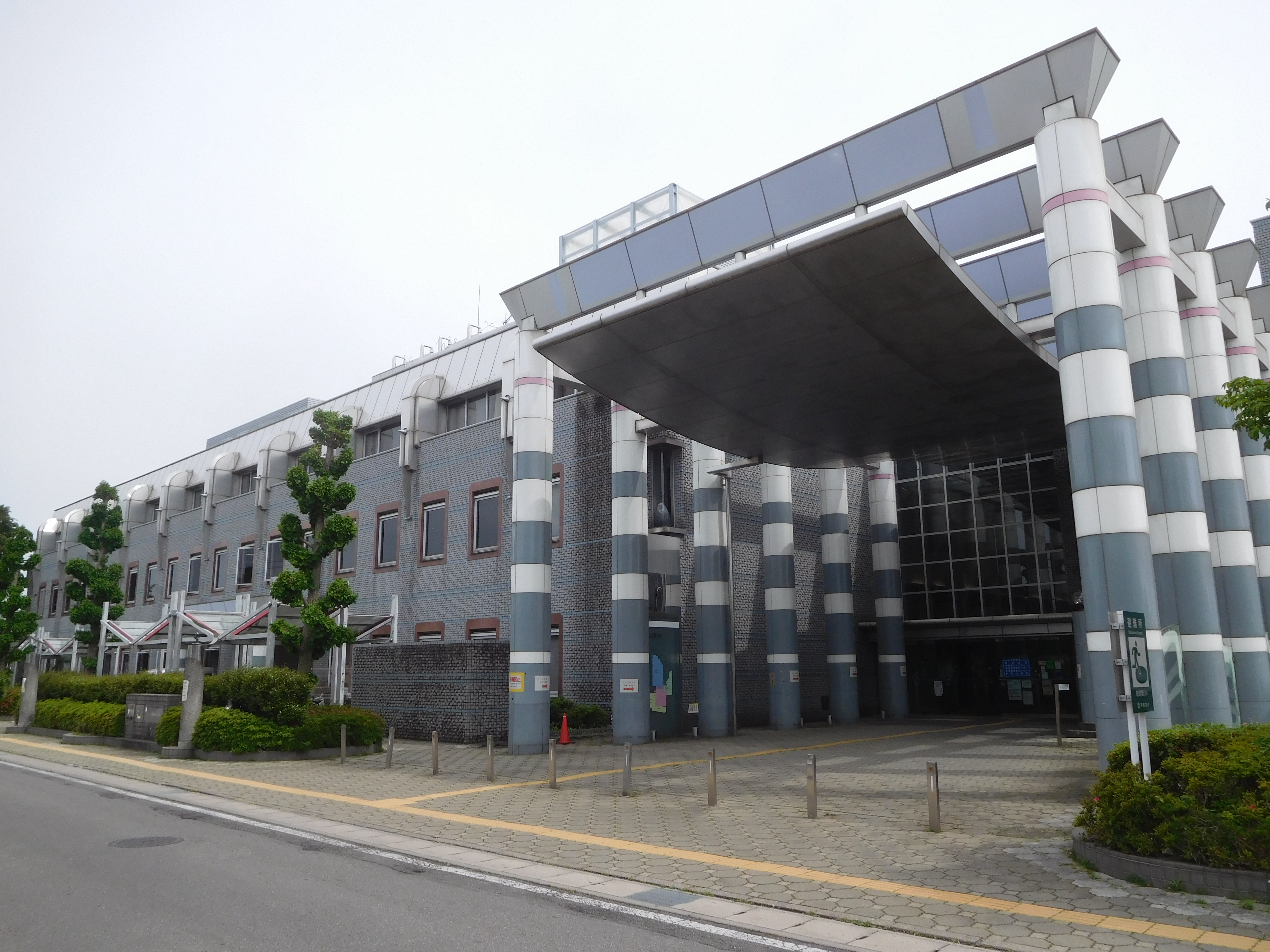 This is Utsunomiya city Higashi library in Utsunomiya, Tochigi, Japan. It has also Utsunomiya Audio Visual Library, Utsunomiya city Eki-higashi branch.